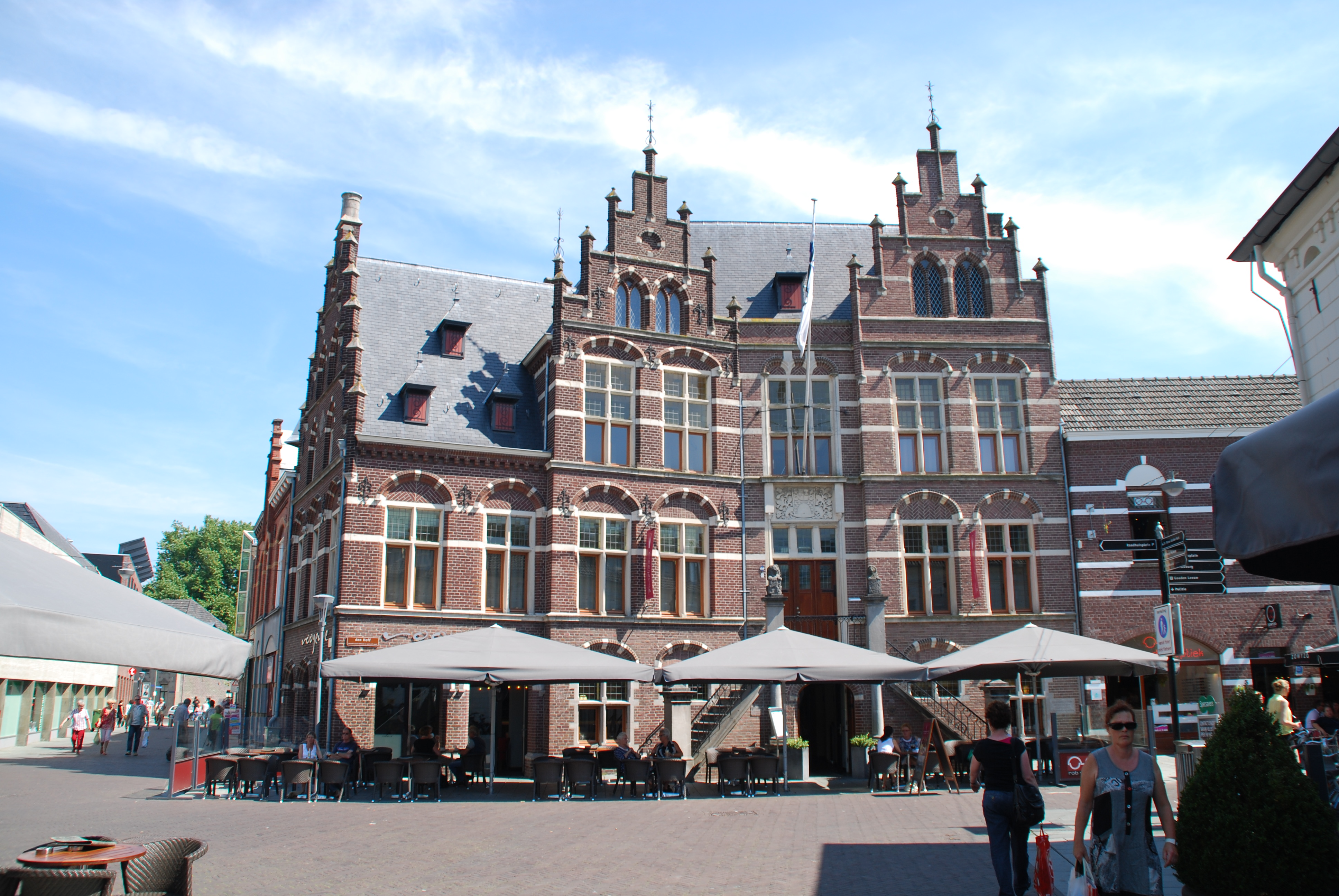 Oude Raadhuys (former city hall), build by Johannes Kayser - 1884-1885